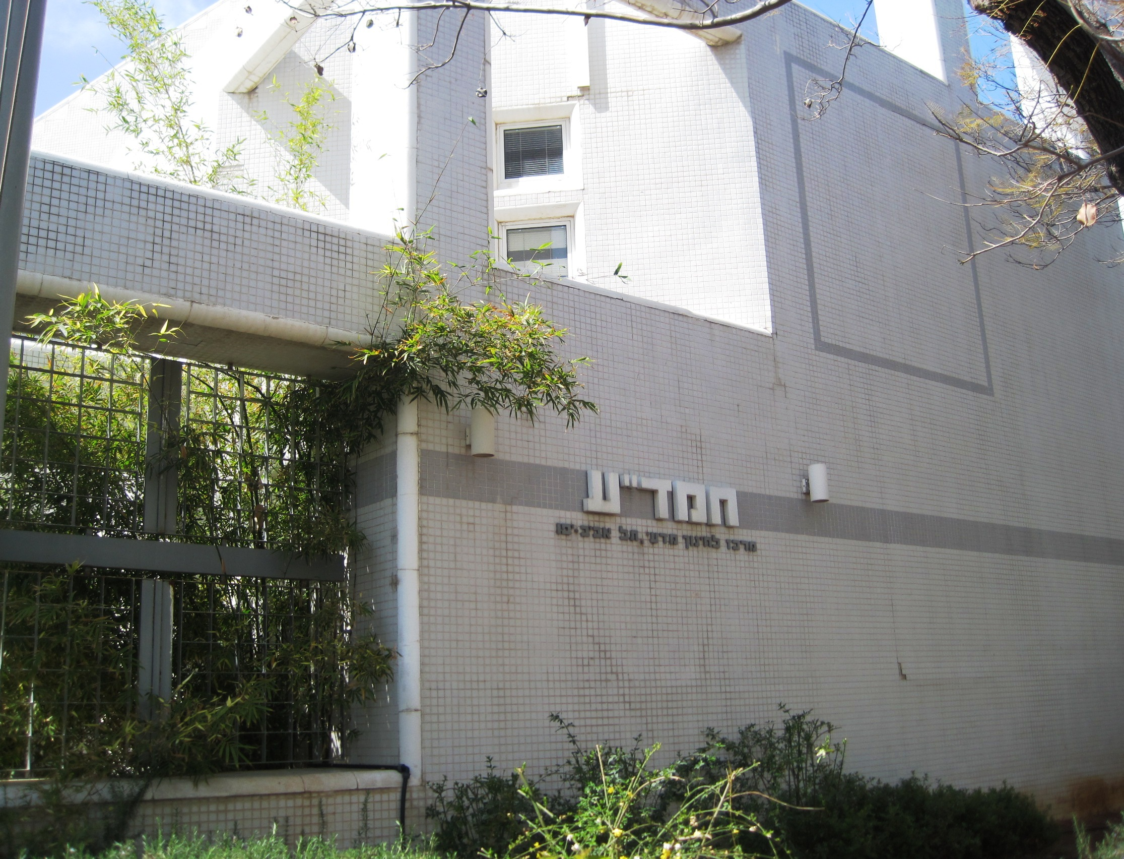 Hemda Tel aviv